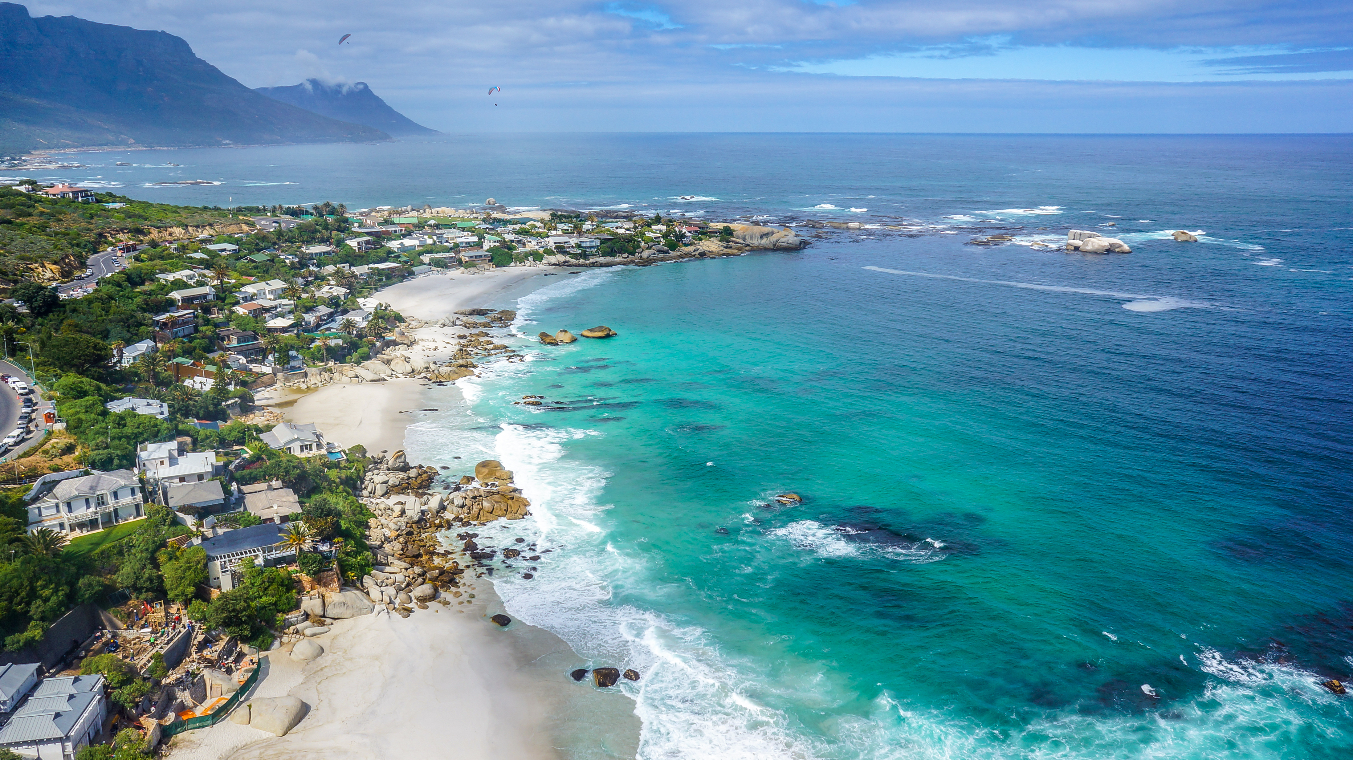 Some many not think of Cape Town as a beach resort, it has some of the best beaches in the world in fact. Clifton beach is a popular area for locals and visitors alike, there are many beautiful beaches in Cape Town such as Camps Bay Beach and Llandudno further along the coast.